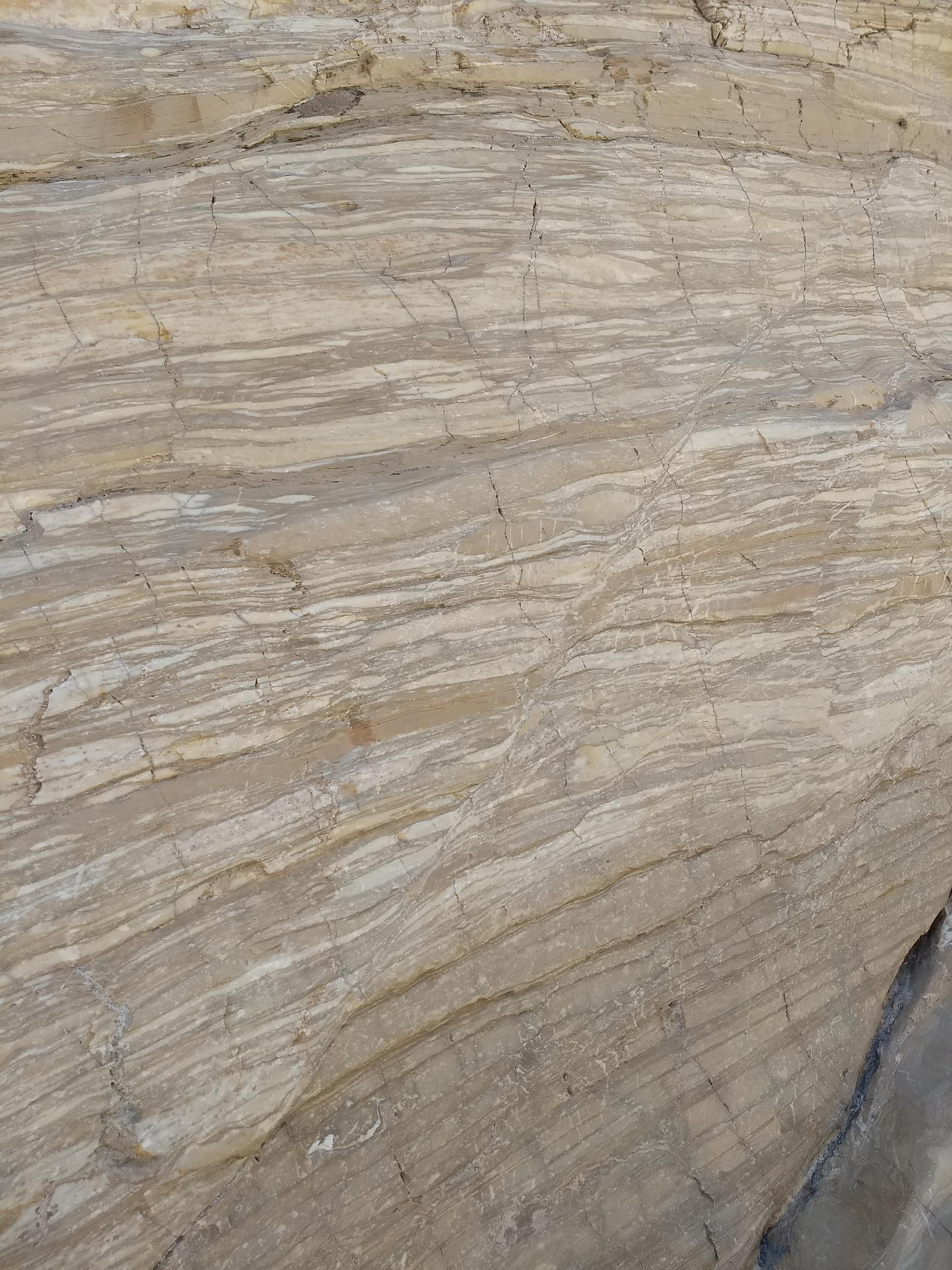 Small ductile shear zone cutting dolomites of the Noonday Formation on the western side of Mosaic Canyon, near Stovepipe Wells, Death Valley